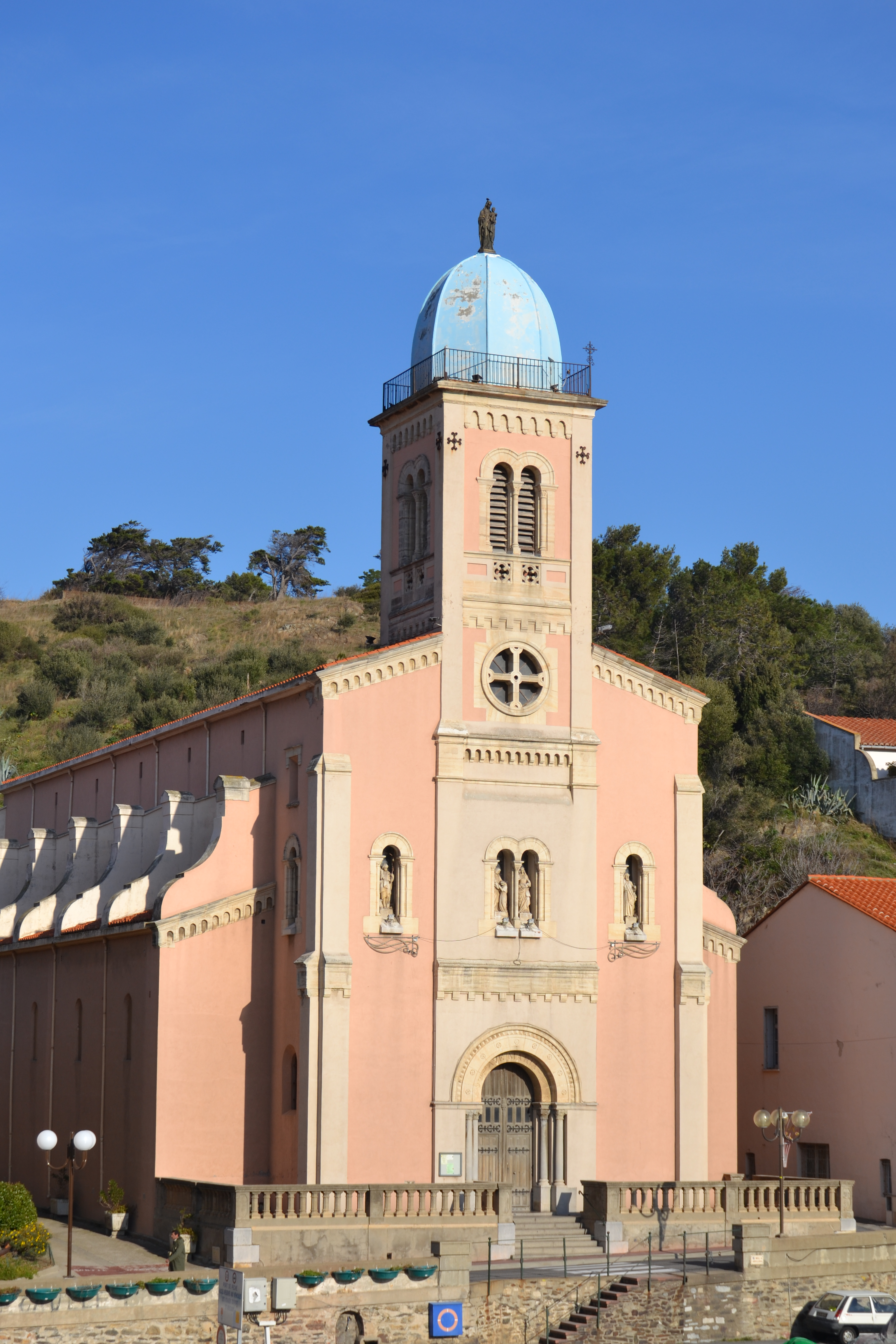 The church of Port-Vendres in France